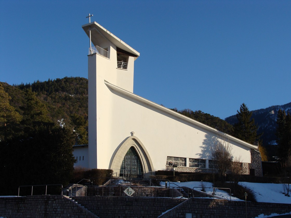 The church of Savines-le-Lac, built 1962